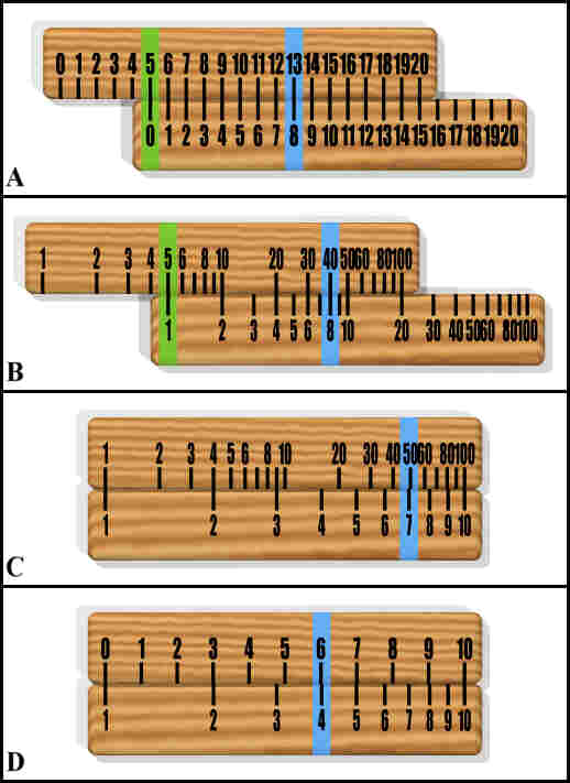 Shows how to calculate with slide rule. A: Addition and subtraction with equal linear scales B: Multiplication and division with two equal log scales C: Squaring and calculation of square root with two different log scales D: Log and antilog calculations with linear and log scale